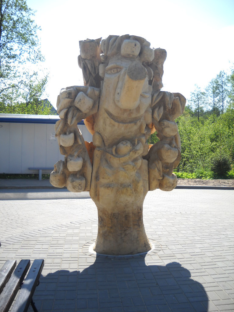 Statue of Kashubian mytical personage Jablón located on the „Poczuj Kaszubskiego Ducha” tourist route (Osiek, Poland).